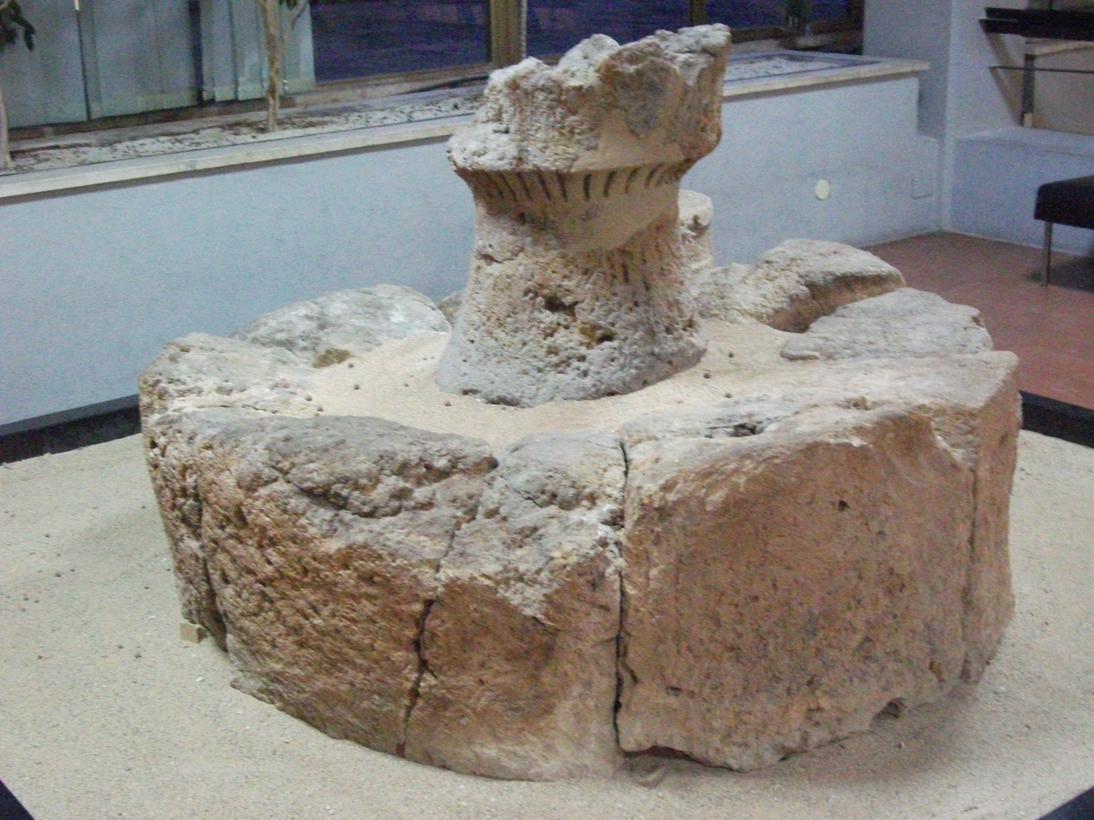 Sculpture, Giant of Monte Prama, nuraghe, Sardinia, Italy, Nuragic civilization,archaeology, bronze age, sea peoples,prehistory